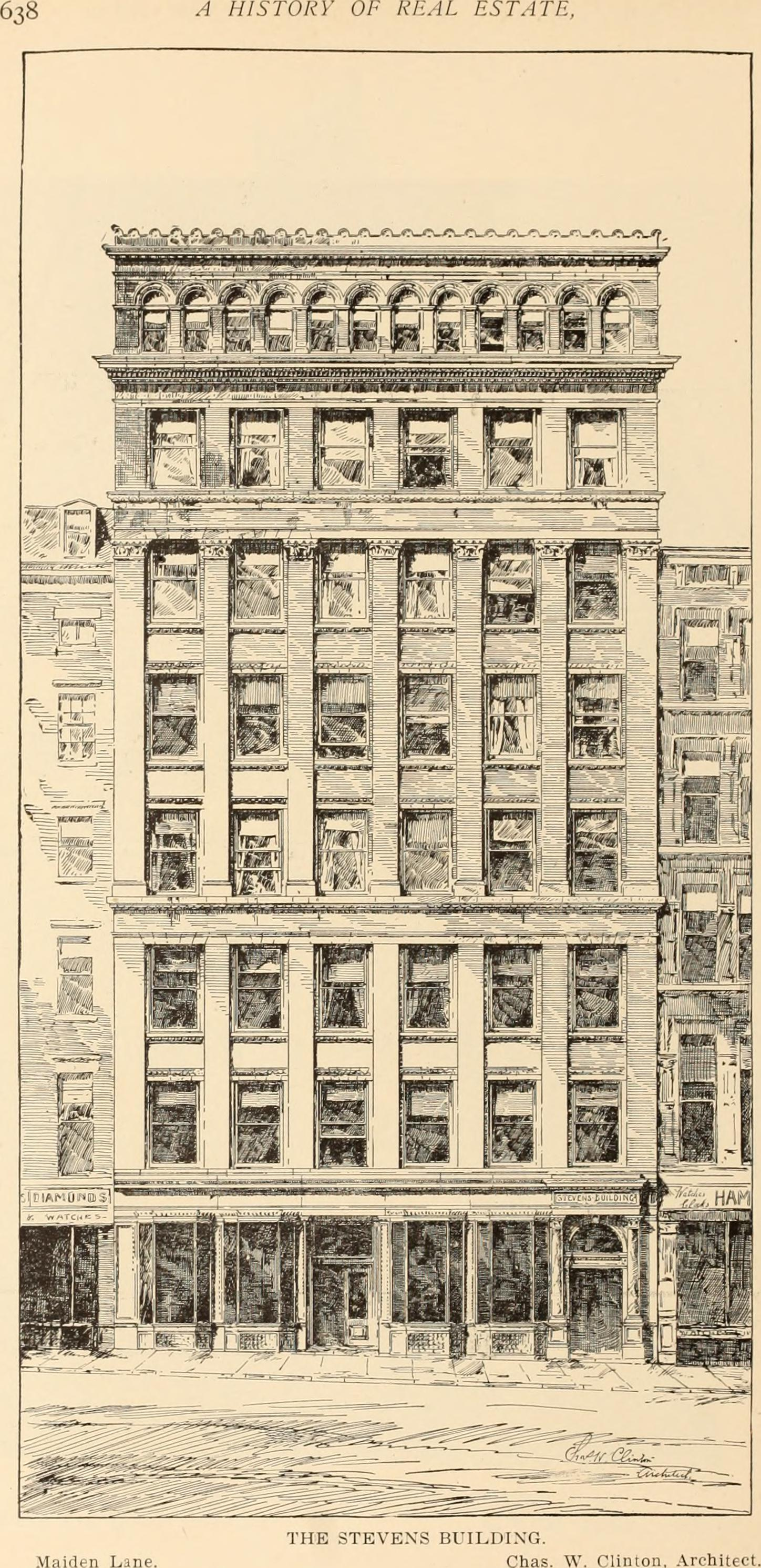 Title: A history of real estate, building and architecture in New York City during the last quarter of a century Year: 1898 (1890s) Authors: Durst, Seymour B., 1913-, former owner. NNC Real Estate Record Association Union League Club (New York, N.Y.), former owner. NNC Subjects: Real estate business Building Architecture Publisher: New York : Record and guide Text Appearing Before Image: ' Text Appearing After Image: BUILDING AND ARCHITECTURE IN NEW YORK.